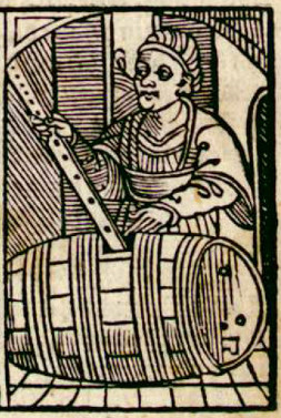 Wine gauging - Using a wine gauge with a cubic scale.